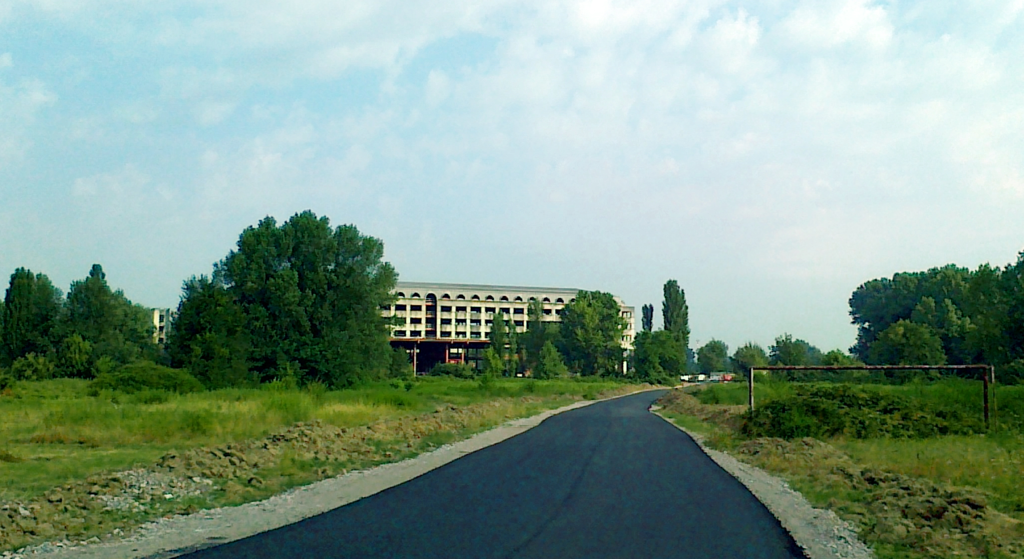 Abusive building under demolition at Pontelambro (Milano) named "ecomostro"